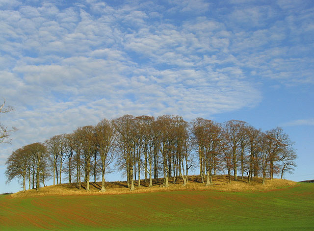 A small hardwood stand A small belt of deciduous trees in a field at Pavilion Farm, viewed on a fine December day.